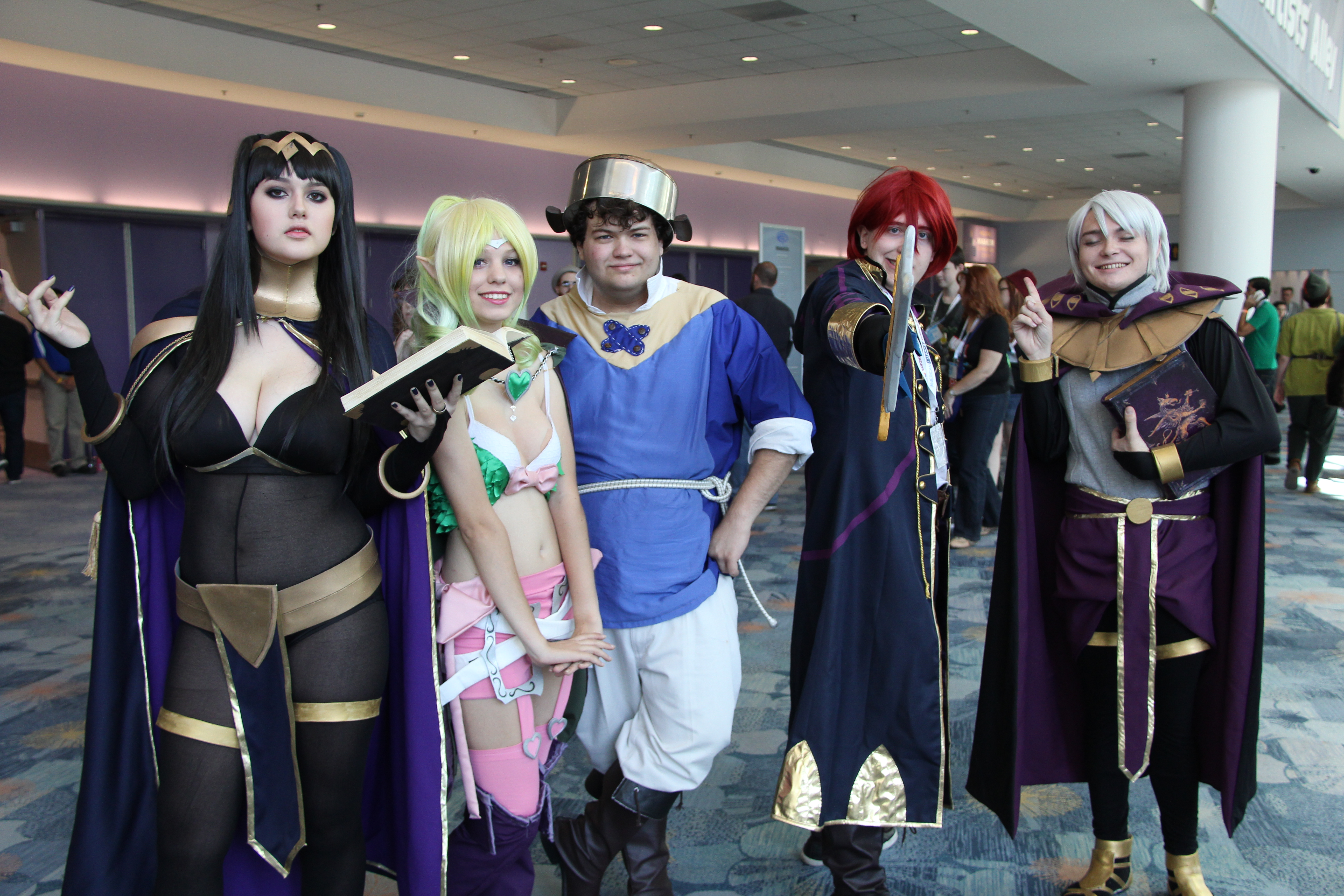 A group cosplay of Fire Emblem: Awakening with [from left to right] Tharja, Nowi, Donnel, Robin, and Henry